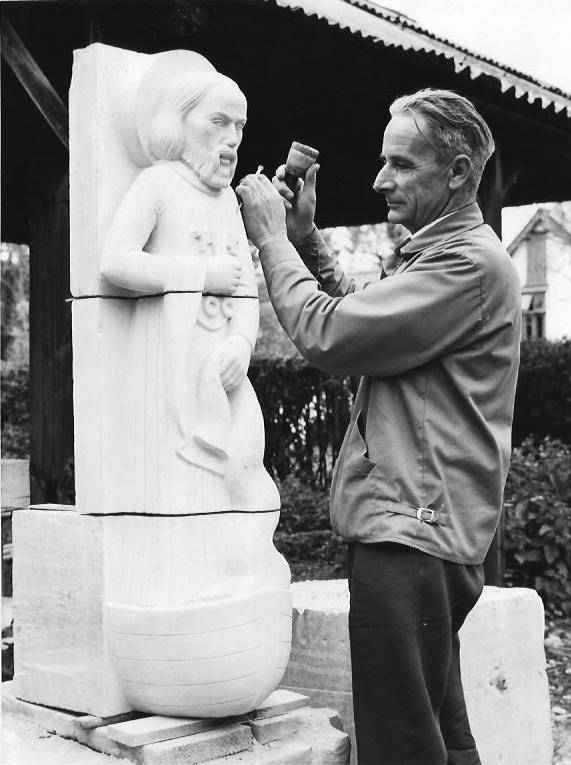 Hilary Stratton, a commercial and academic sculptor from Sussex, England.